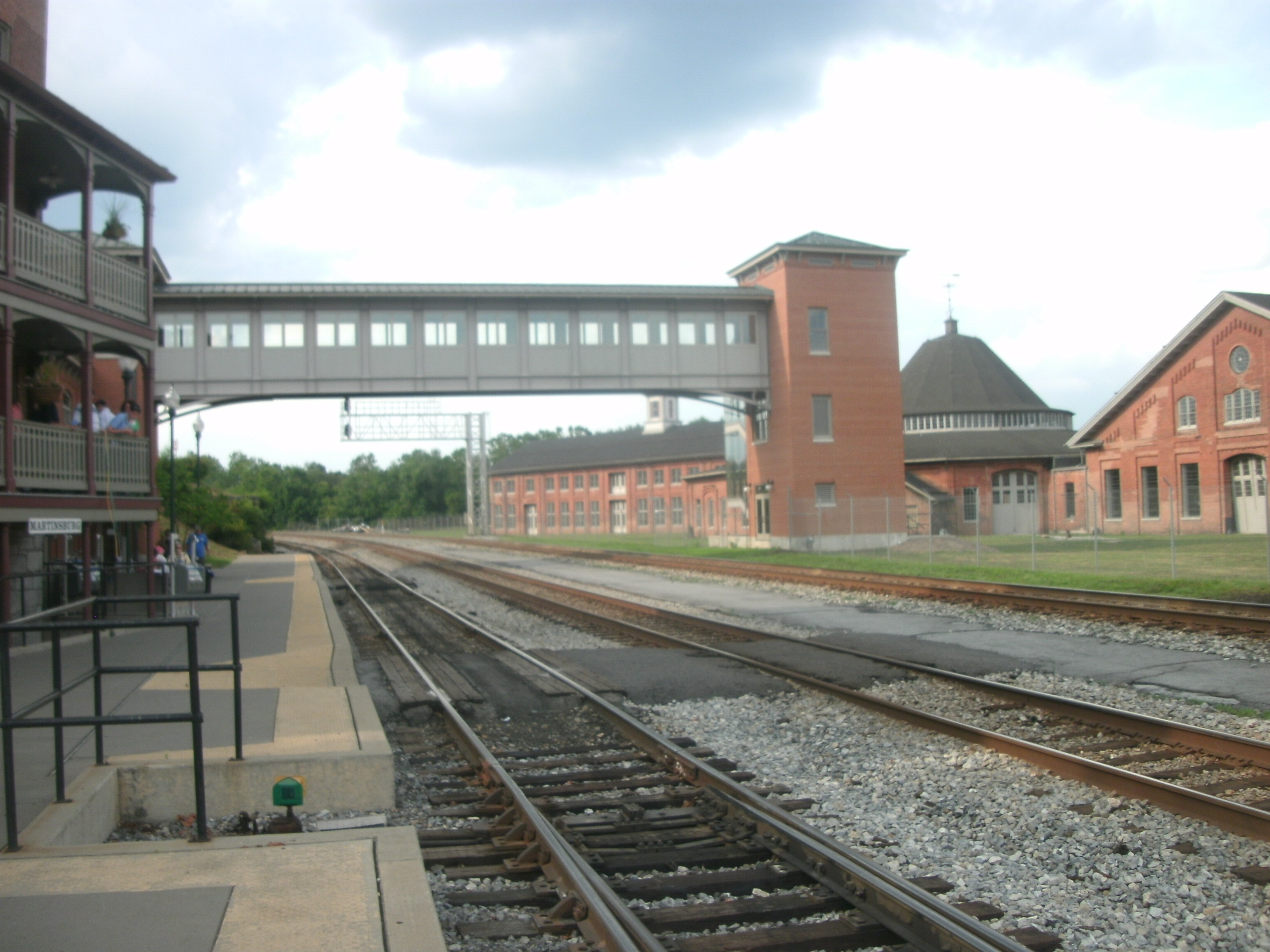 The Martinsburg station facing Chicago-bound on the Washington-bound platform.